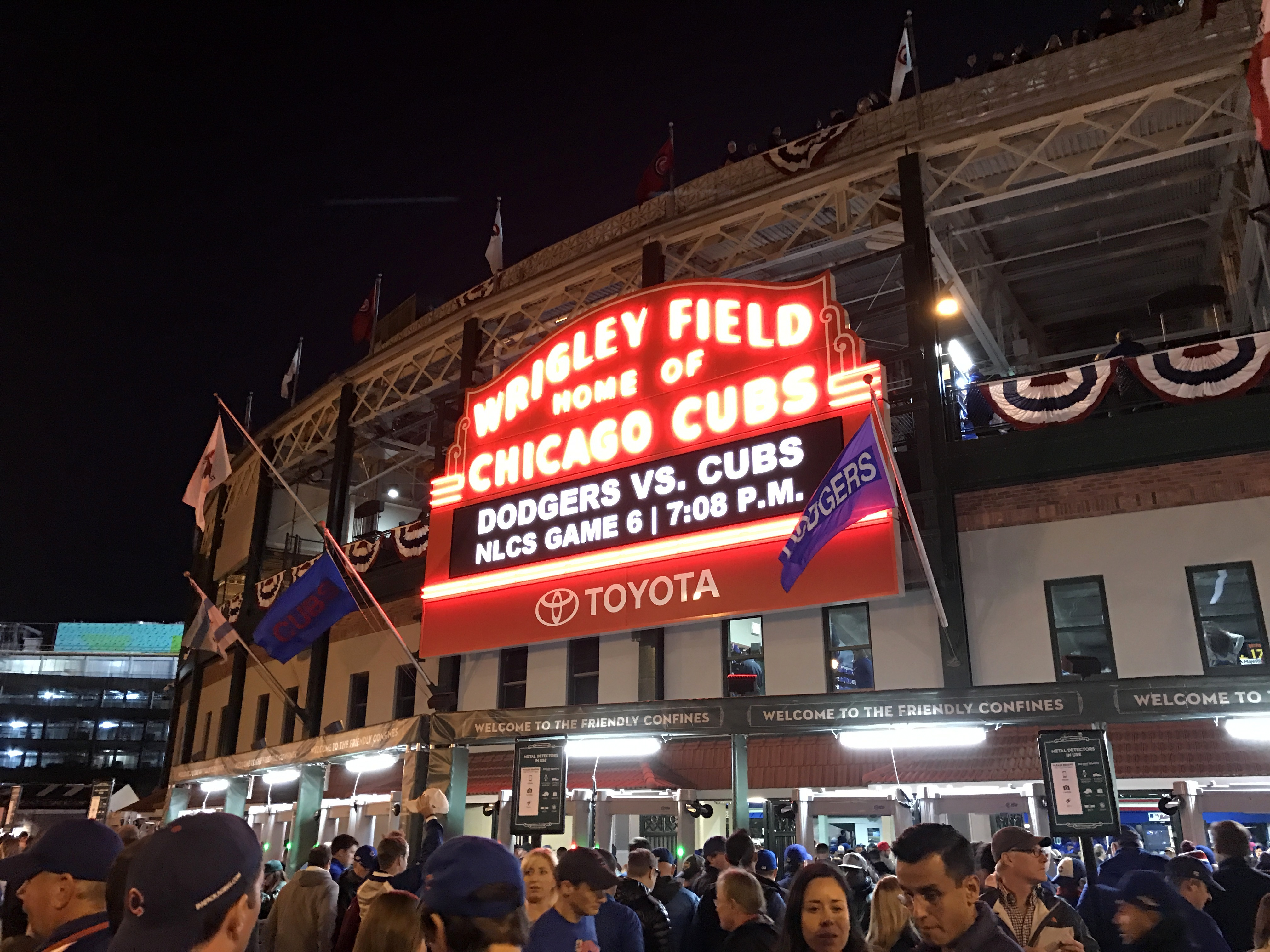 Outside Wrigley Field, minutes before NLCS Game 6. Shot on an iPhone 7 Plus.